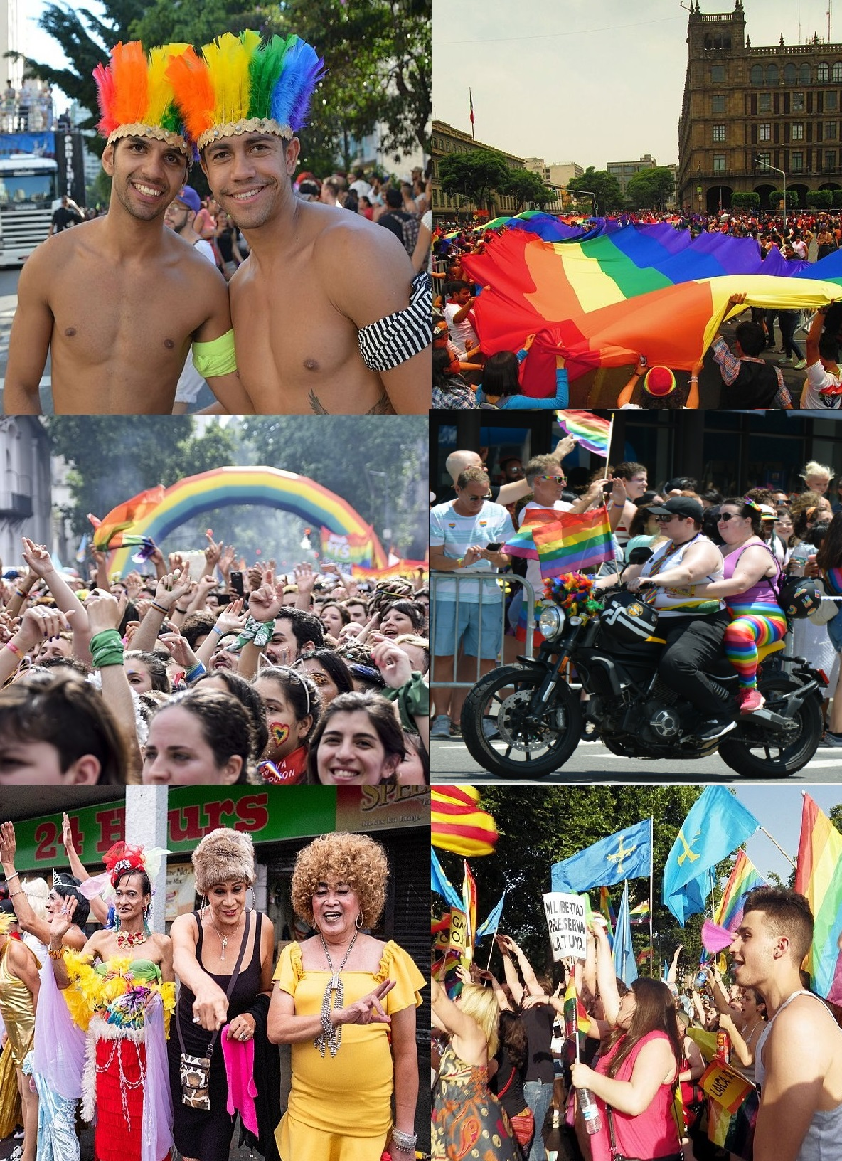 LGBT Pride Day Several Countries. Brazil-Mexico-Argentina-USA-Filipinas-Spain